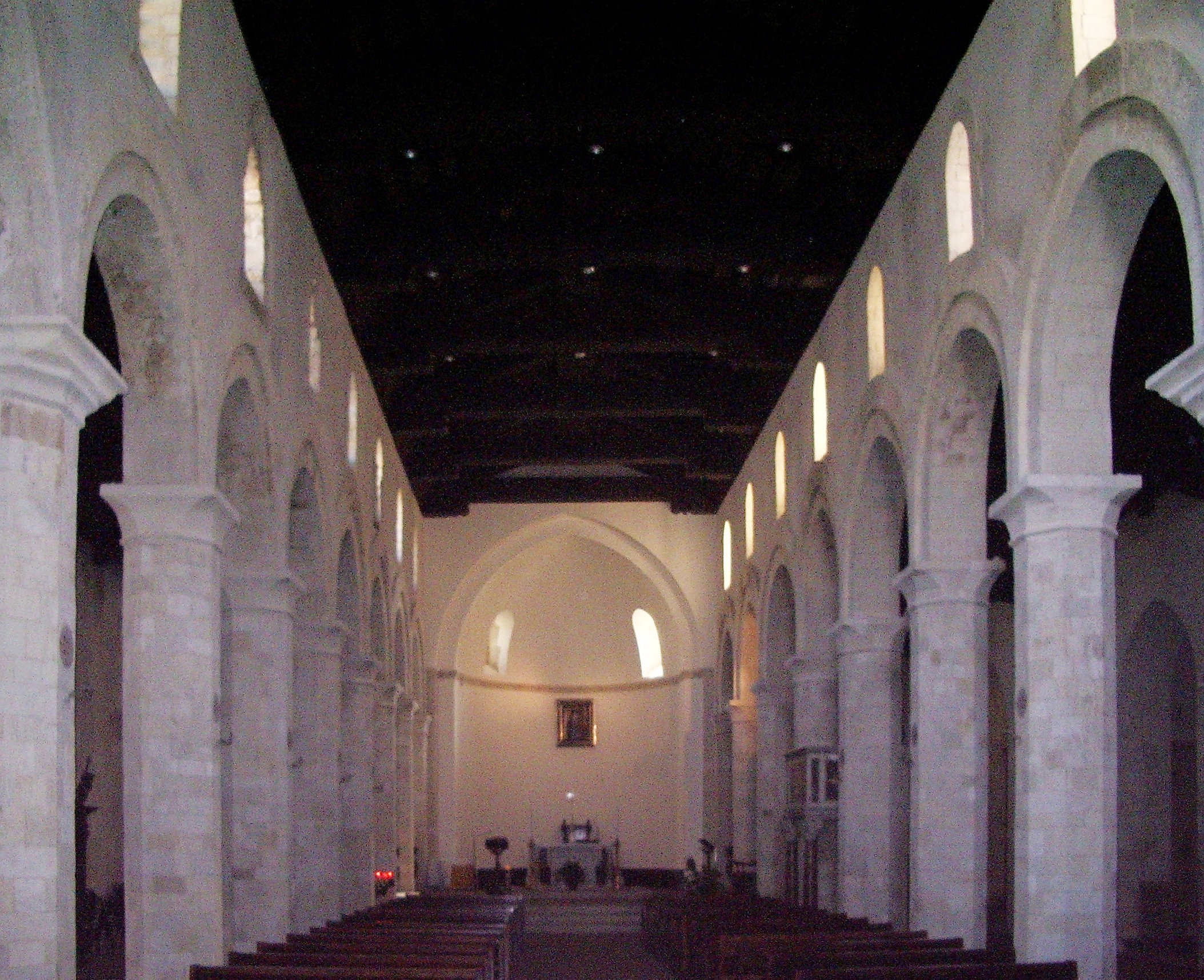 Tropea Cathedral